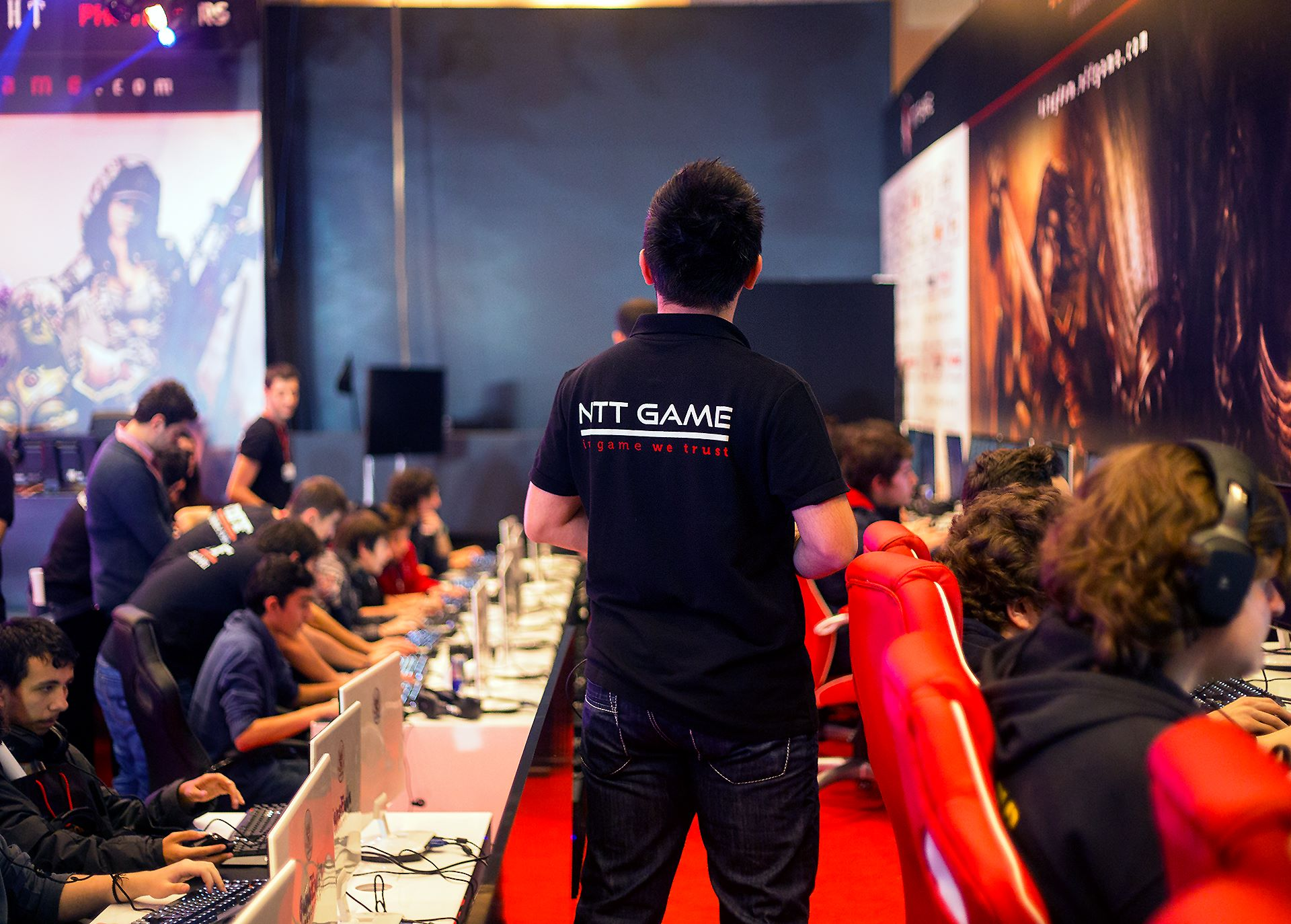 Phantomers being played by its fans for the first time.